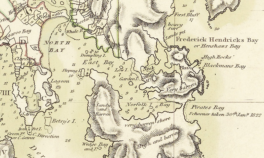 Thomas Scott's map of Norfolk Bay and Frederick Henry Bay, 1824. This was cropped from the original, which may be found at